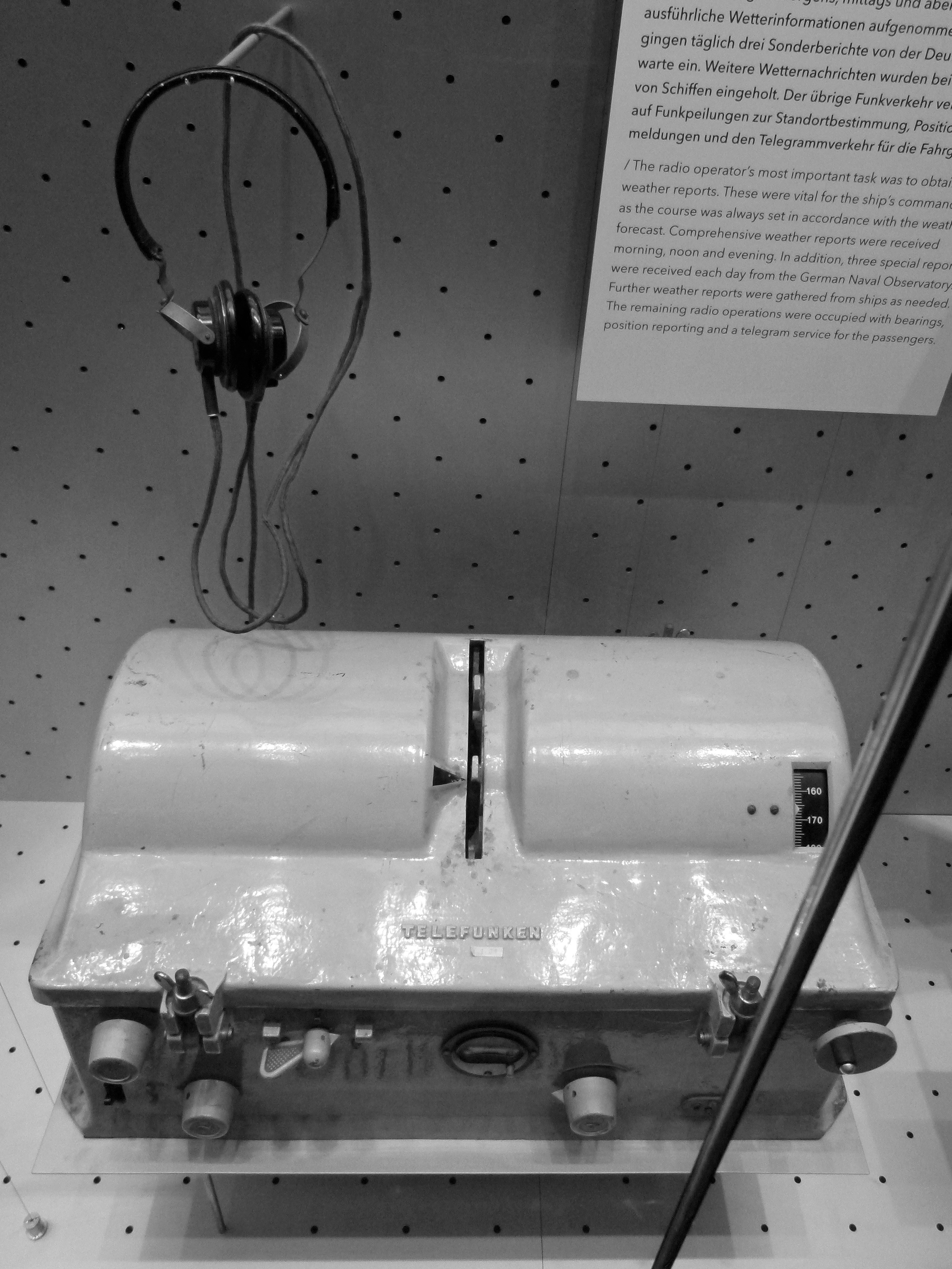 Zeppelin's airband radio, Telefunken